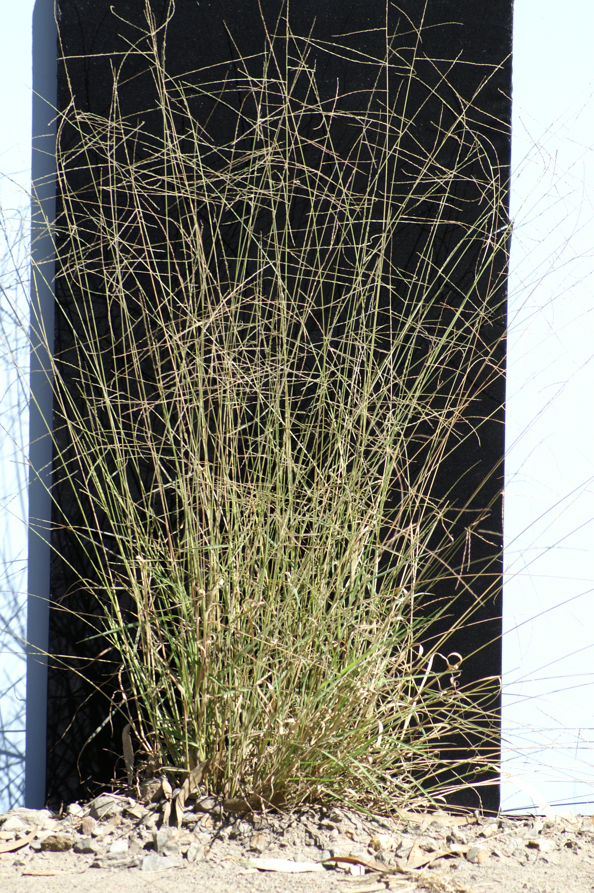 Native, warm-season, perennial, Loosely tufted, erect grass; to 60 cm tall and with a densely hairy swollen base. Leaves are flat, 3-6 mm wide and often sprinkled with hairs with warty bases. Flowerheads vary from digitate to a primary axis of racemes. Branches are 4-10 in number, rigid, and widely spreading at maturity; they mostly lack spikelets near their base and lower branches are whorled. Spikelets are paired, 3.75-5 mm long, 2-flowered and hairy. Flowers from late spring to autumn. Usually found in woodlands on better soils and often in areas prone to periodic flooding (e.g. next to waterways and roadsides). Also occurs on sandy and duplex soils, but is uncommon on heavy clays. It has low frost tolerance, but high drought tolerance. Native biodiversity. When abundant it is considered to be useful for stock as it grows rapidly after summer rains, is palatable and has high feed value prior to flowering, but productivity is low to moderate. Strategic spelling from grazing improves production and persistence.